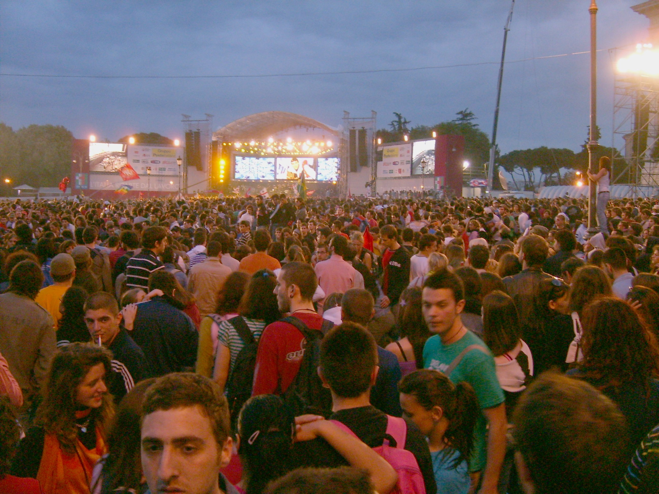 Each year, on the 1st May there is a huge free concert in "San Giovanni" square in Rome, Italy. In 2007 there were approximately 700000 people [1]. This is a view of the crowd watching the concert in the evening